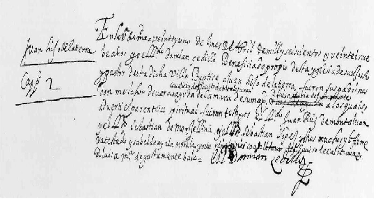 Partida_nacimiento_don_juan_jose_de_austria